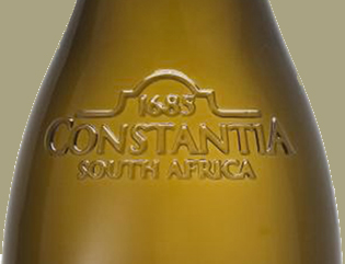 Constantia-Bottle